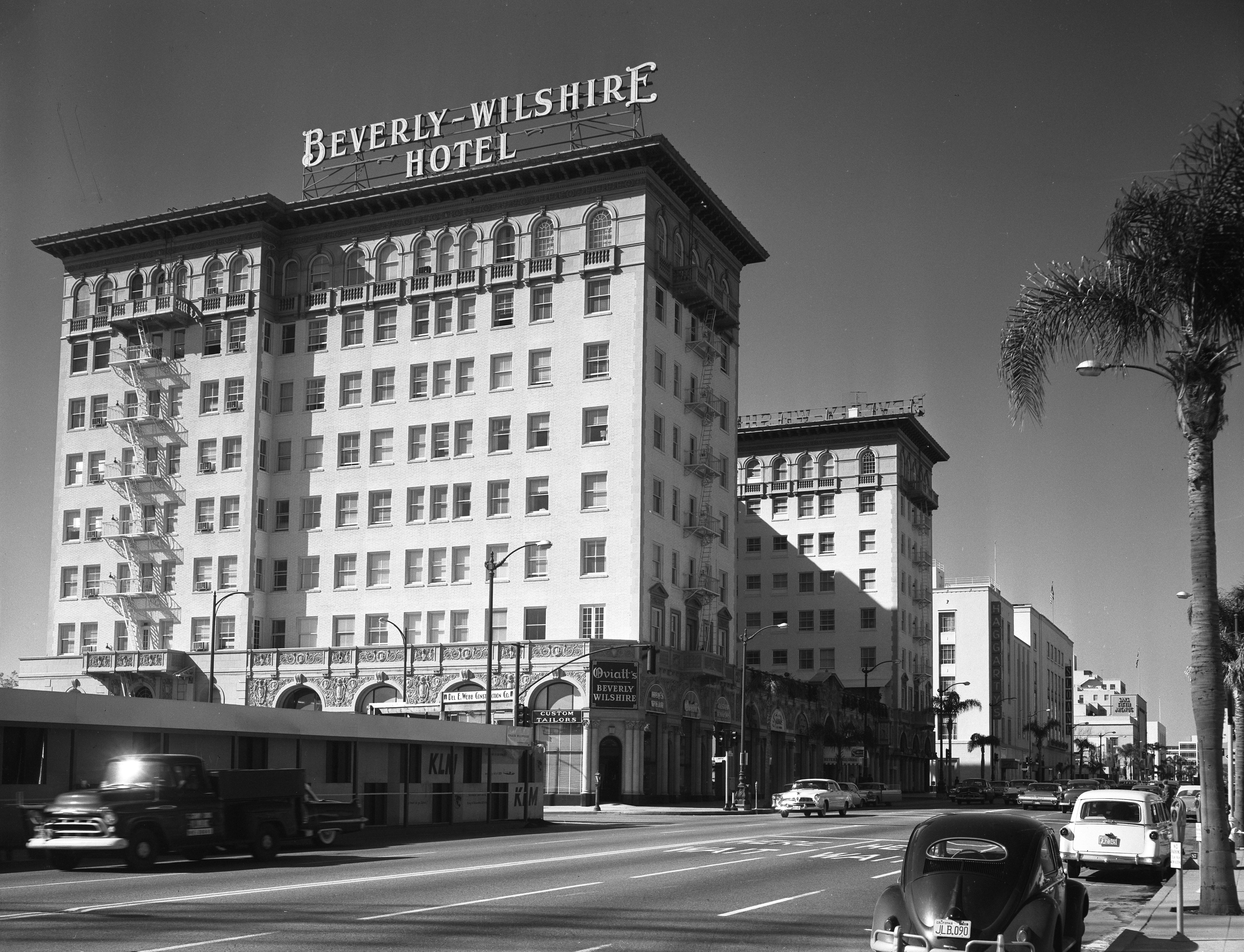 Title: Beverly Wilshire Hotel Wilshire Boulevard, in Beverly Hills, Calif., 1959